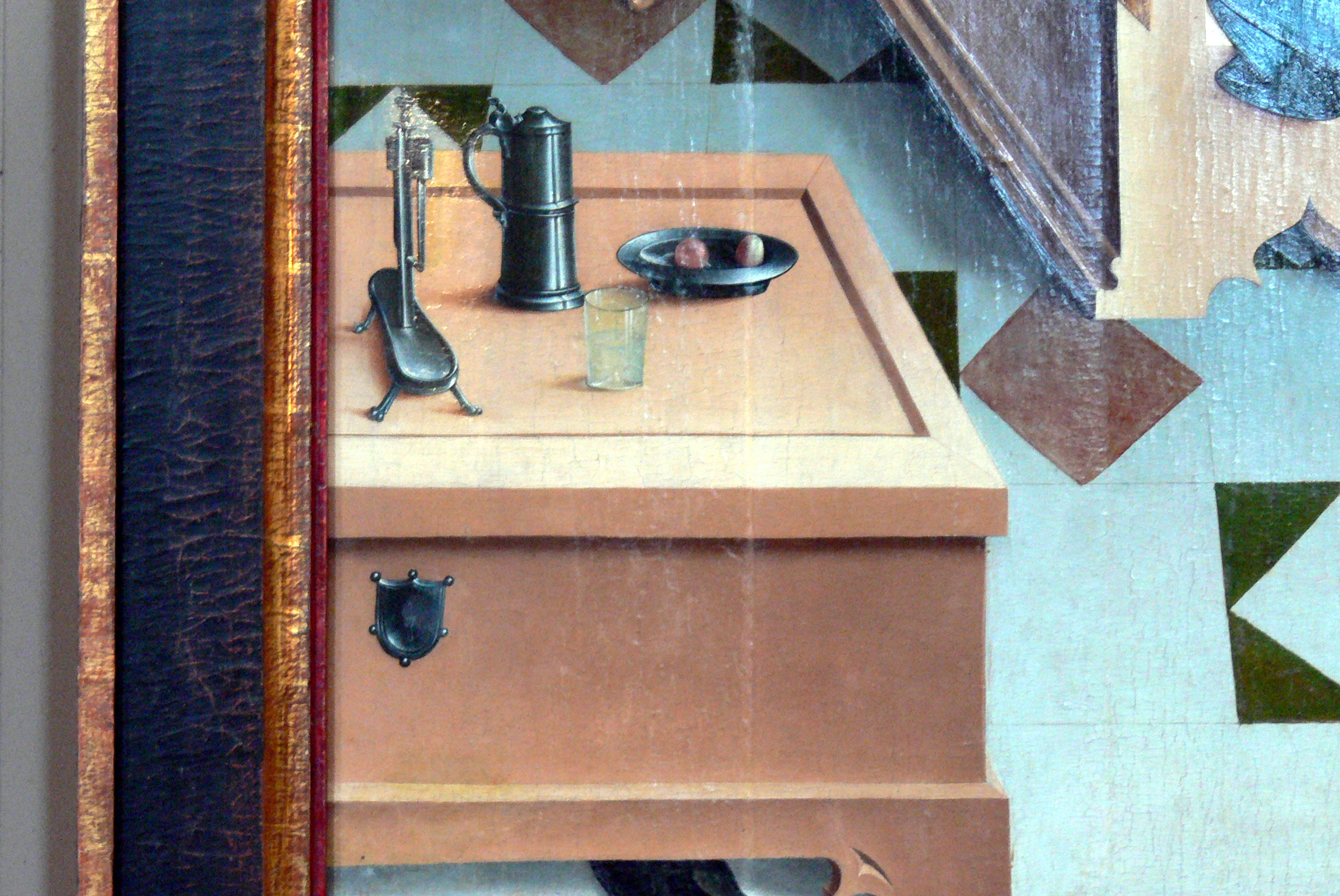 Großgmain ( Salzburg state ). Our Lady church: Dormition of Virgin Mary ( 1499 ) by the Master of Großgmain - detail.